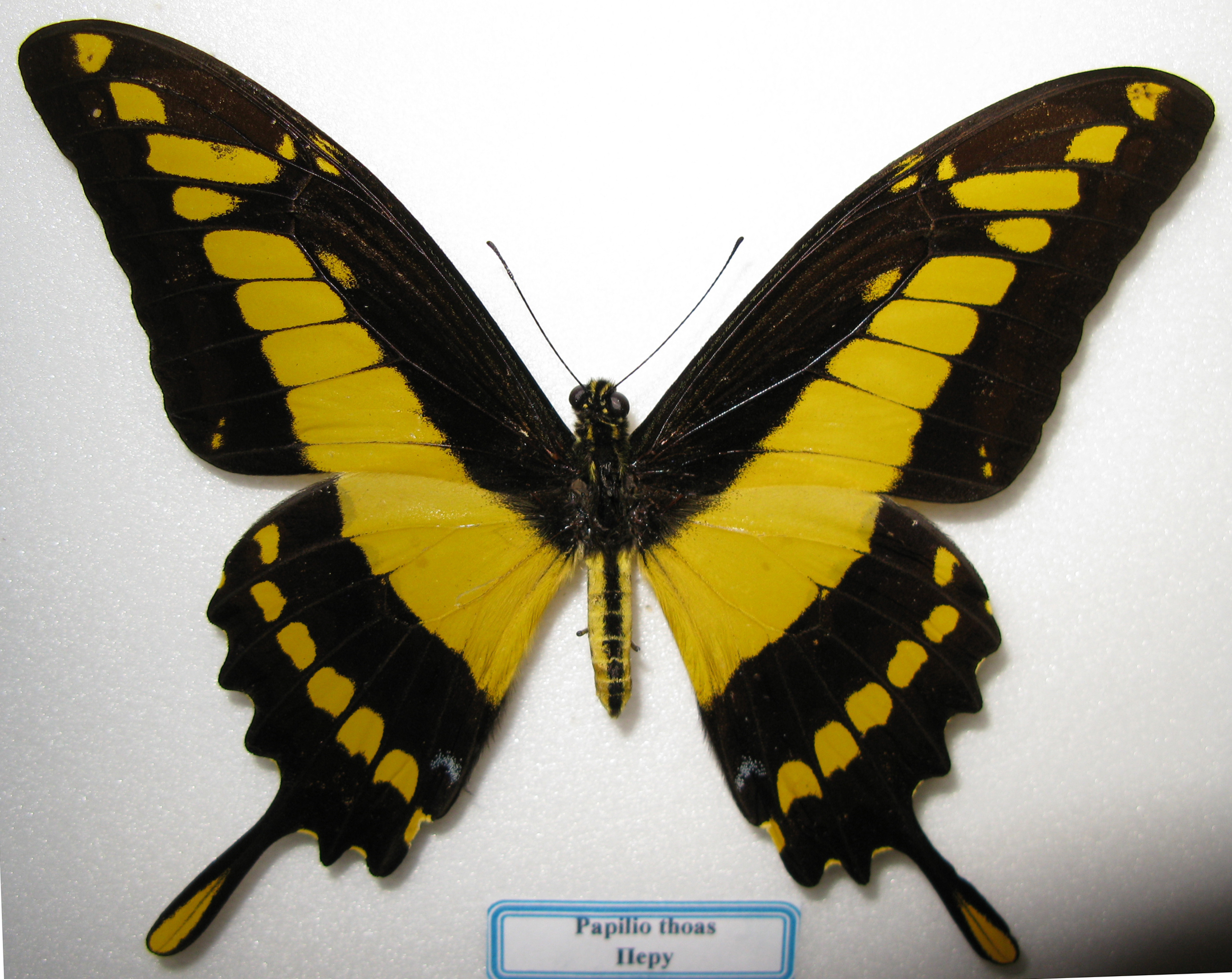 Papilio thoas